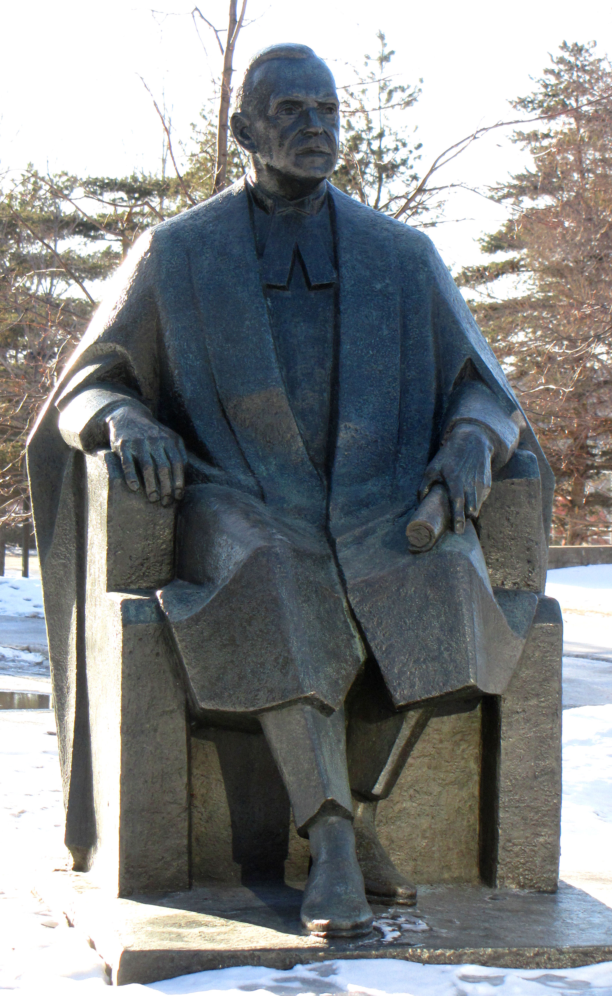 Louis St. Laurent (1882-1973) statue, grounds of Supreme Court of Canada, Ottawa, Ontario, Canada